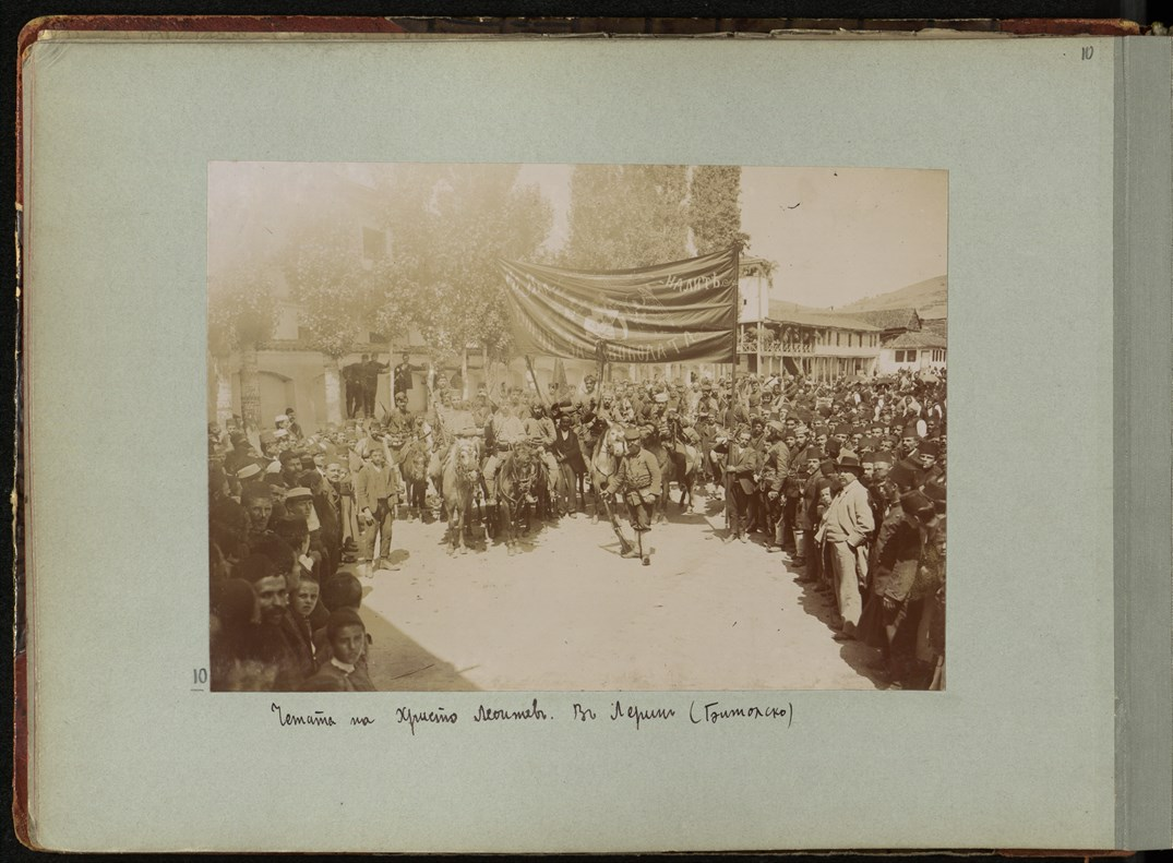 Photo album with photographs of Bulgarian detachment and events from the social and political life of the Bulgarian population in Bitola.